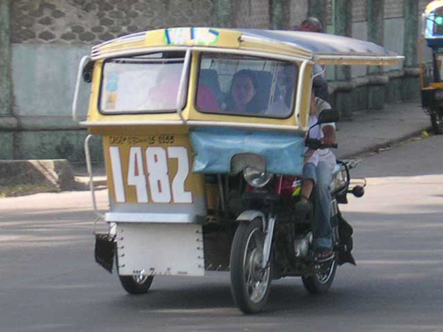 Picture of a motorized tricycle in Dumaguete City.